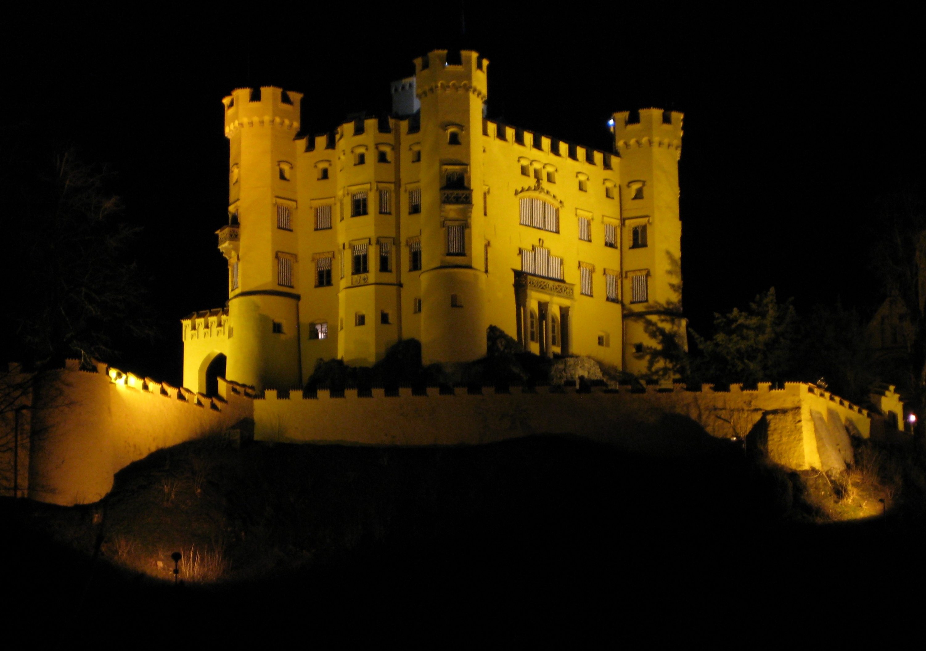 Hohenschwangau Castle at night